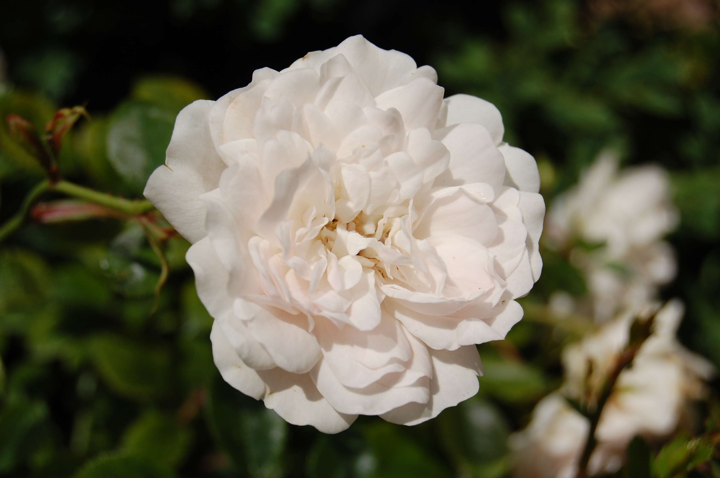 Rosa alba 'Maiden's Blush'